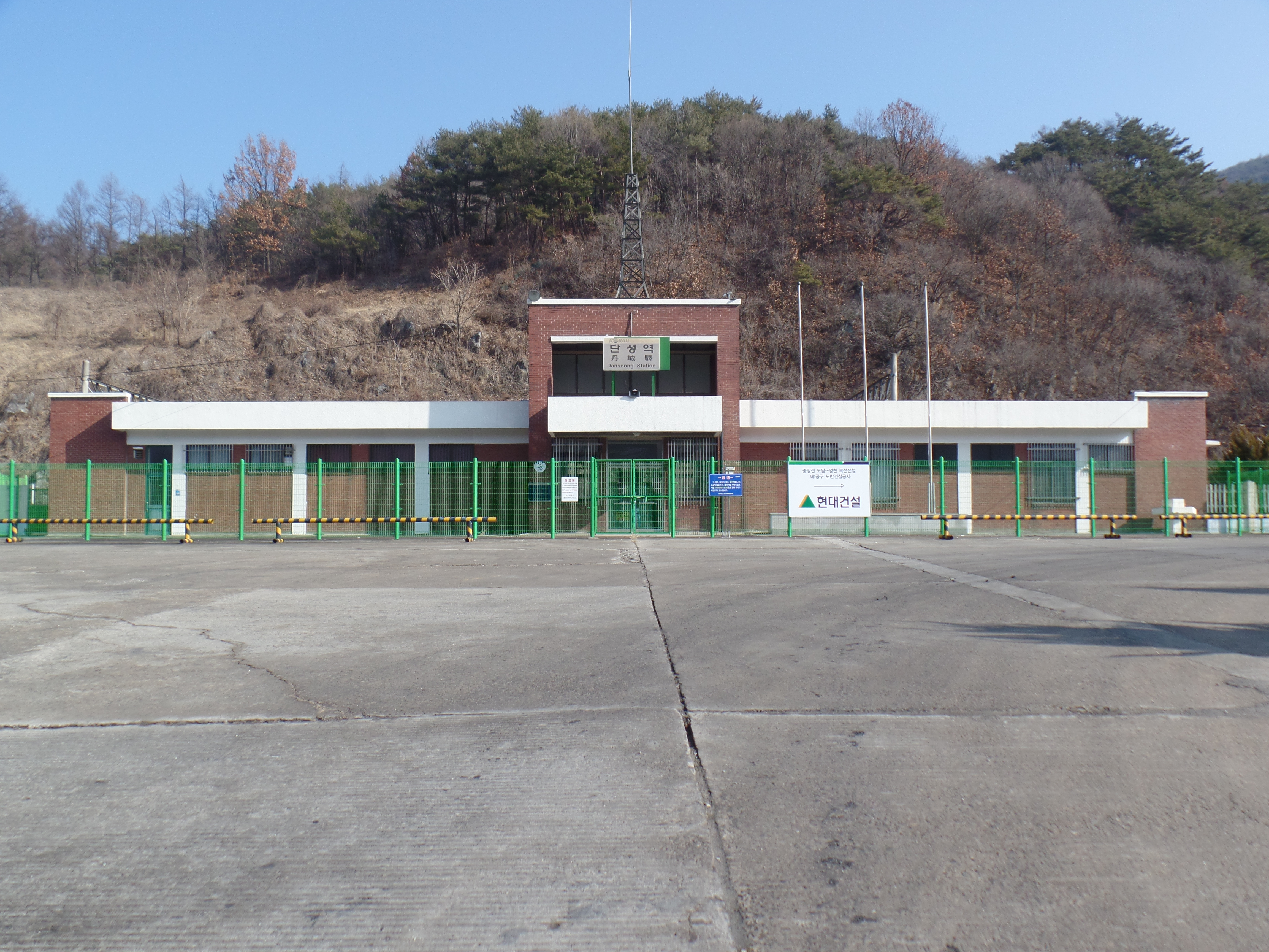 Jungang Line Danseong Station